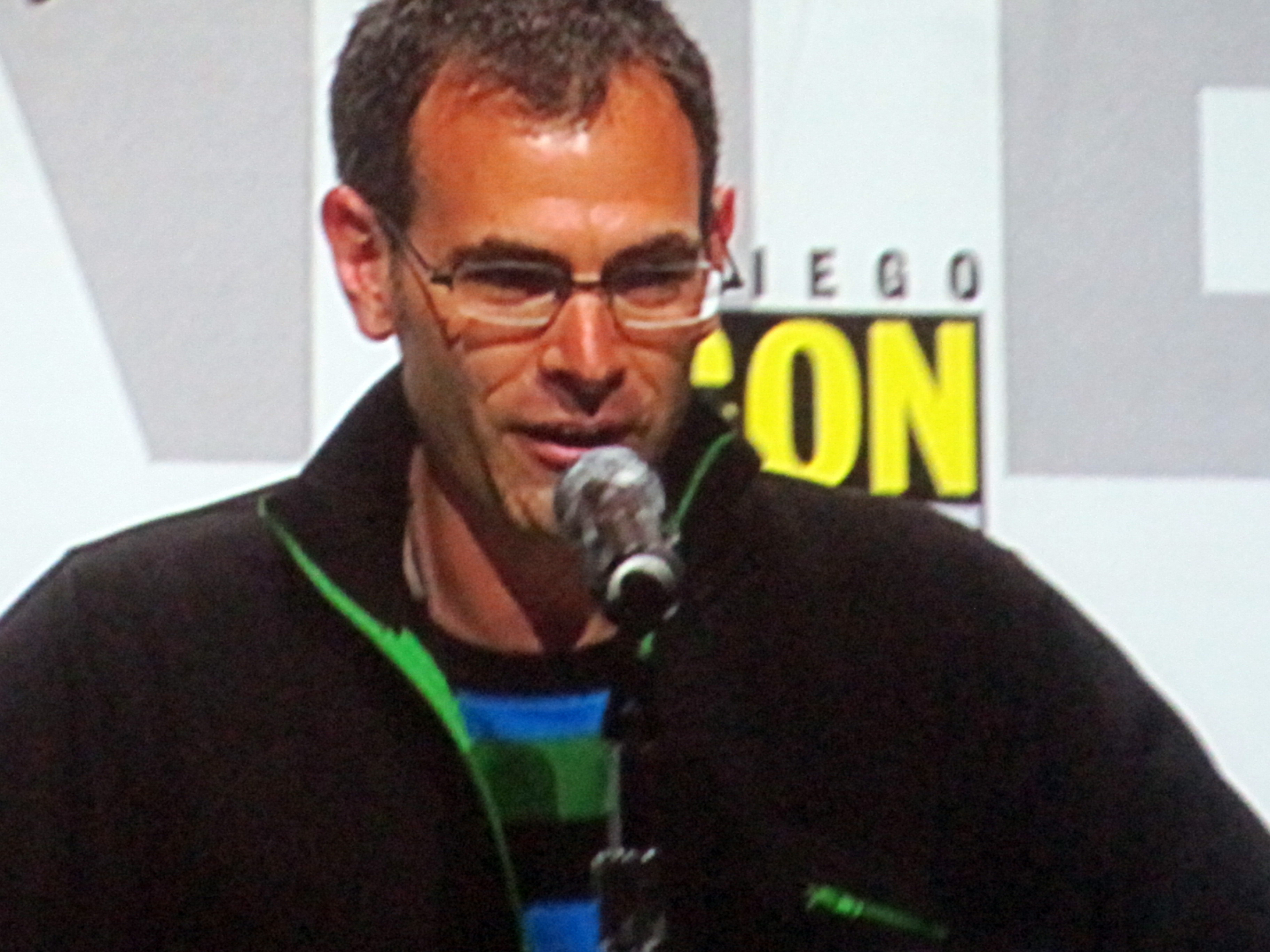 Director Vincenzo Natali participating in the panel for Splice at WonderCon 2010.